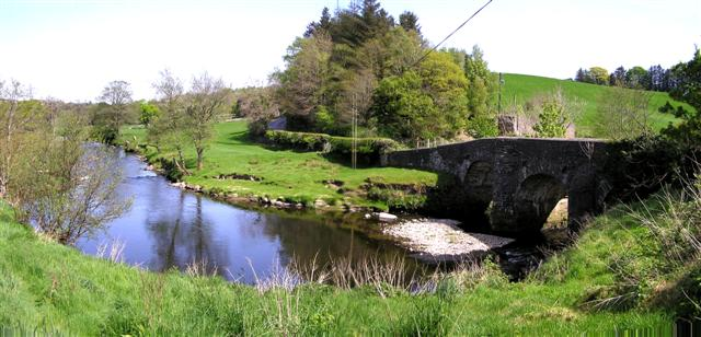 Cumber Bridge, Claudy It spans the River Faughan to the south of the village.